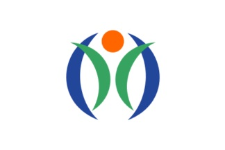 Flag of Kazo Saitama